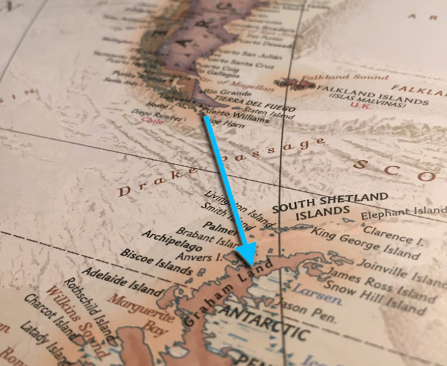 captain Fiann Paul, The Impossible Row, Drake Passage, Southern Ocean, ocean rowing map